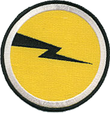 118th Tactical Reconnaissance Squadron - emblem.